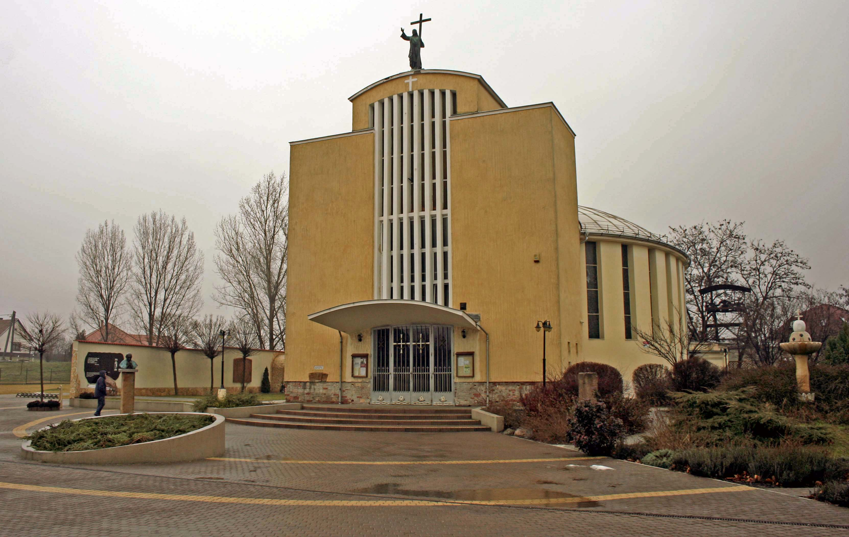 Taksony, St Anne's Church (1958) - from outside